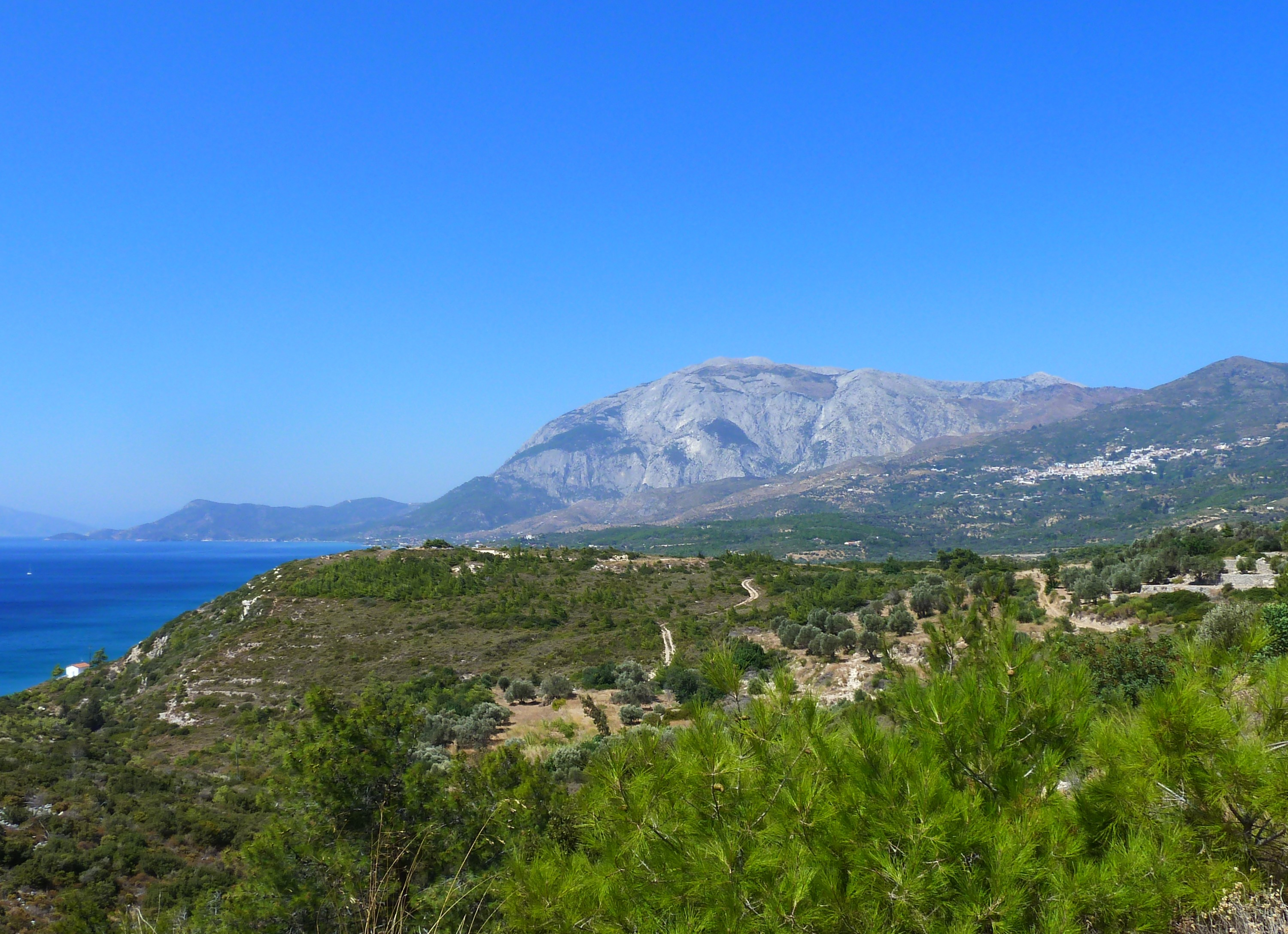 The massif Kerkis on the Greek Aegean island of Samos - altitude 1434 m above sea level.